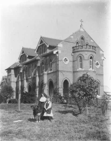 Description: Buildings, gardens and people of Loreto Normanhurst in 1897. Image title:1897 Building and gardens